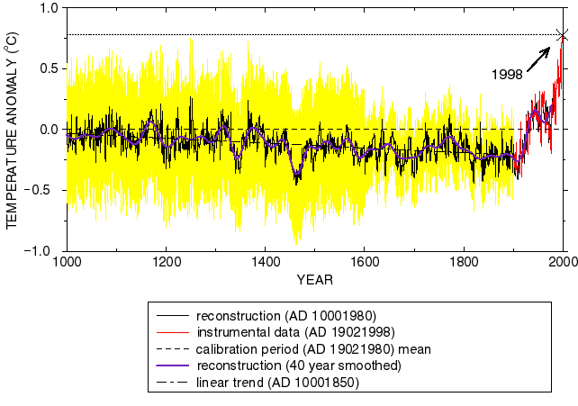 A graph showing global temperature anomalies for the northern hemisphere from AD 1000 until AD 2000, based on the research of Michael E. Mann and others, and illustrating the term "hockeystick graph".